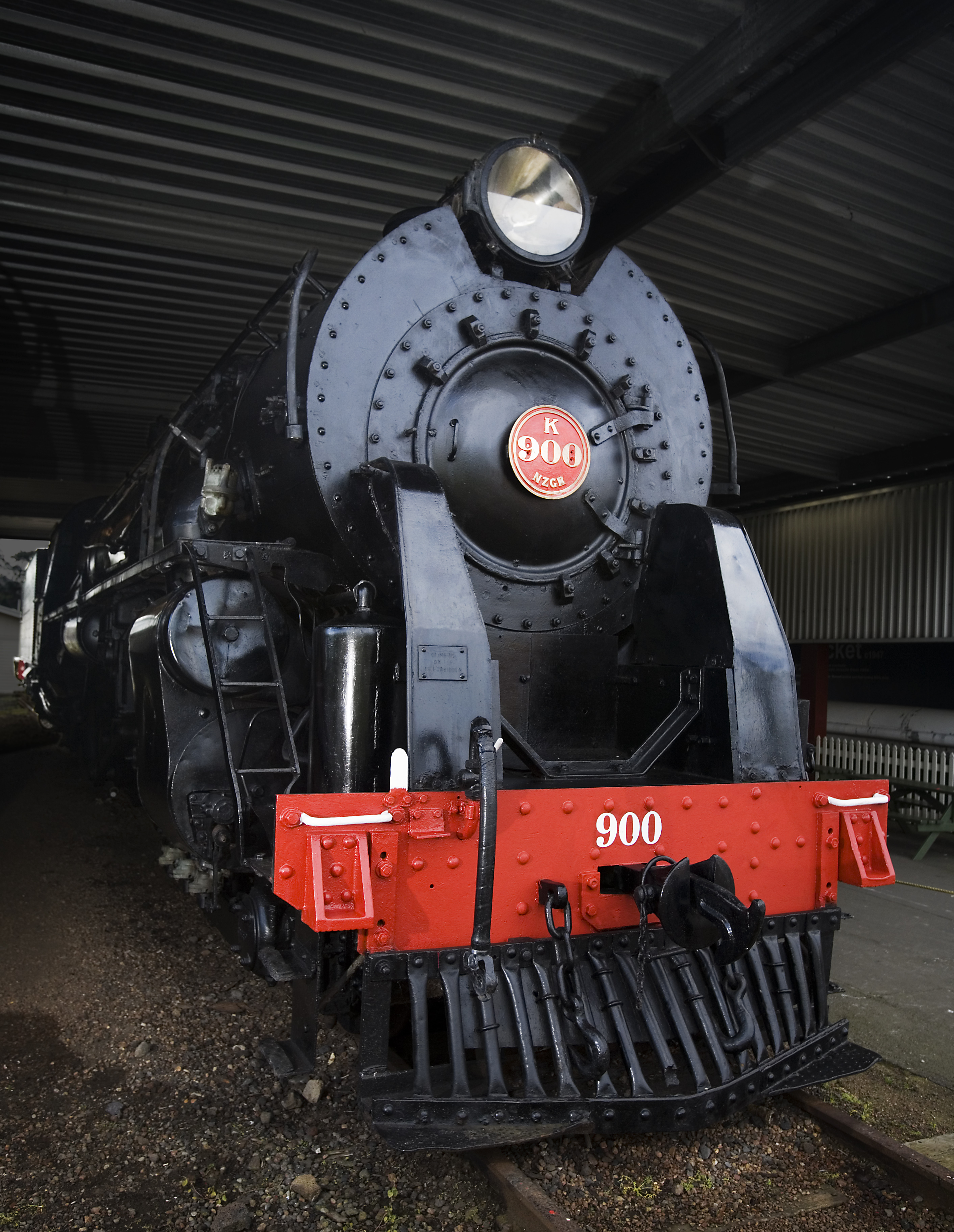 K 900 K-class steam engin locomotive (AKA 'The Killer'). Manufactured by New Zealand Railways in 1932. Museum of Transport and Technology (MOTAT), Auckland, New Zealand.